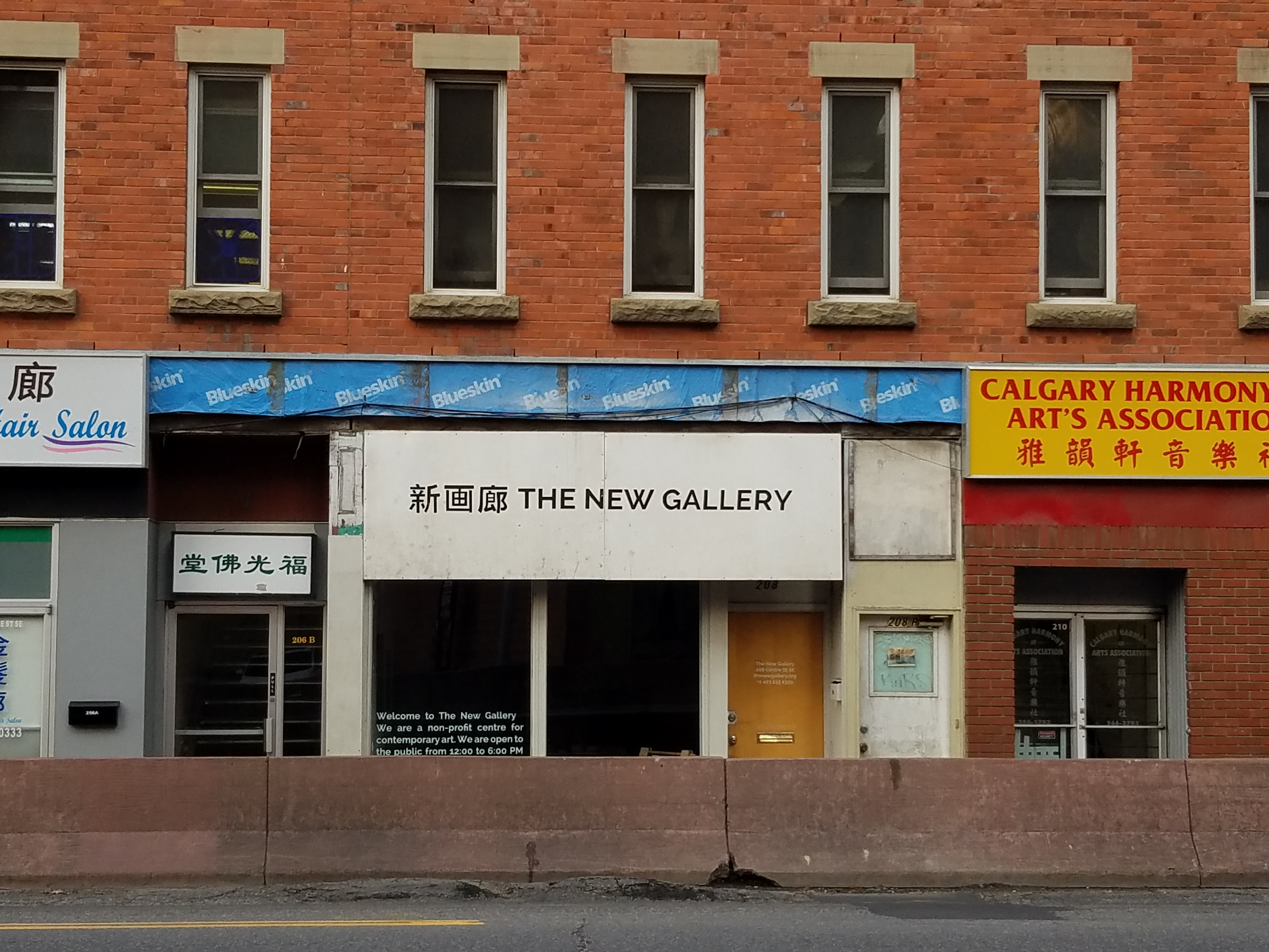 Calgary photos for CC